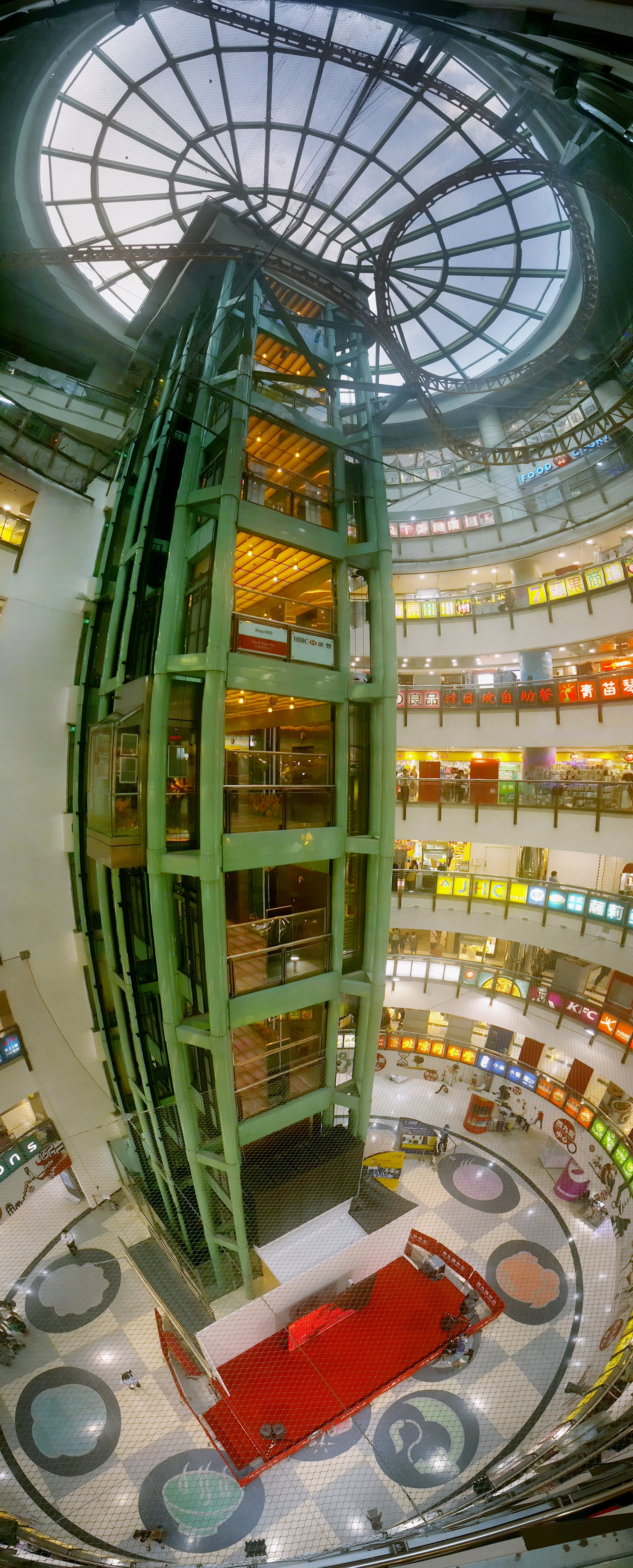 HK Dragon Centre atrium panorama view 中文（香港）: 深水埗西九龍中心中庭